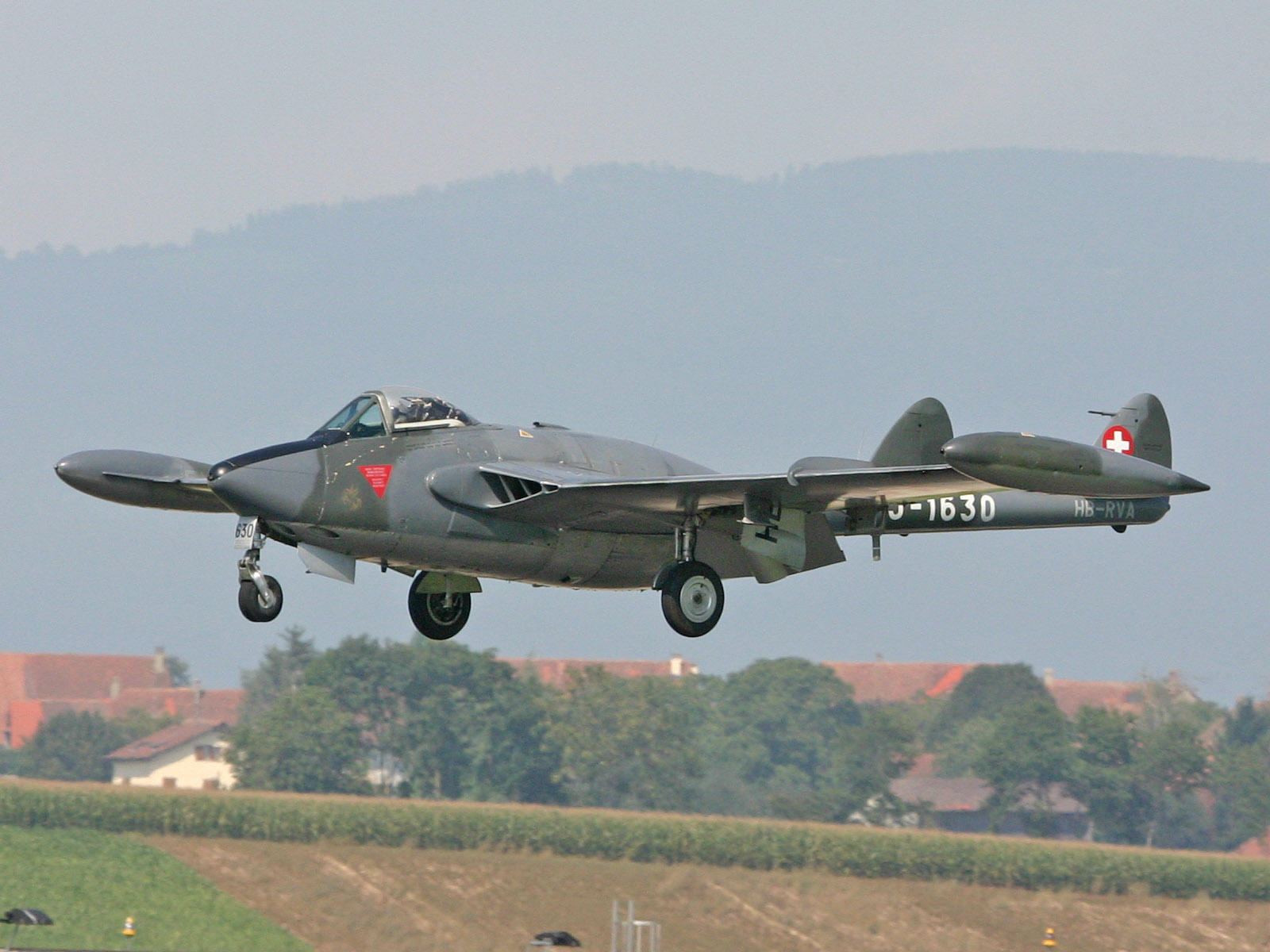 De Havilland DH-112 Venom at Air04, ex J-1630 of the Swiss Air Force.